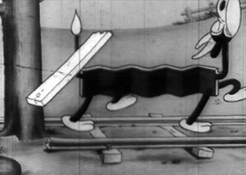 Scene from the 1930 cartoon Box Car Blues. The cow after being hit by the runaway boxcar.